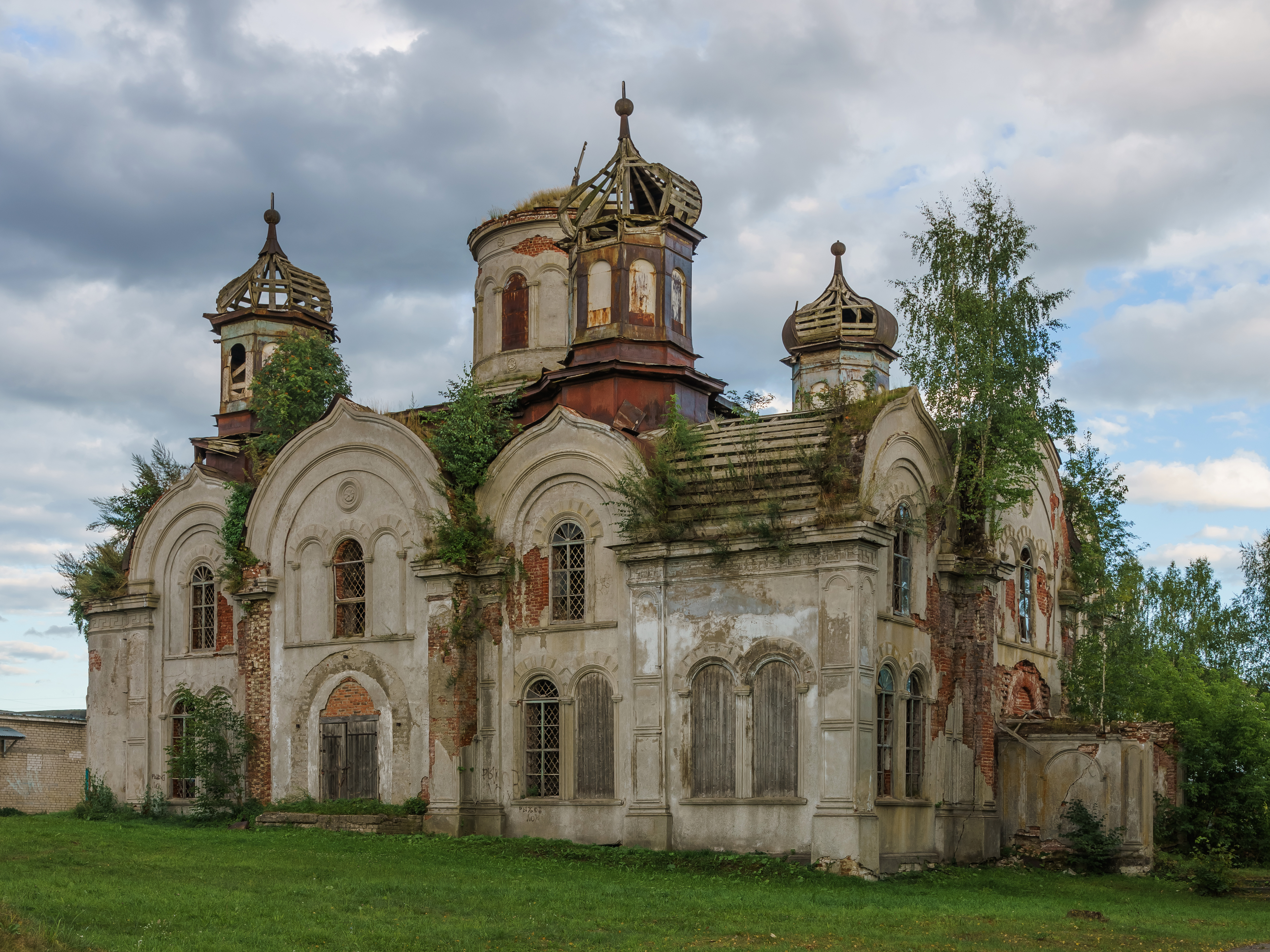 St. Nicholas Church in Verkhny Landekh, Ivanovo Oblast, Russia